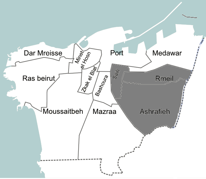 Beirut I electoral district. Based on File:Beirut I (1960-1972 electoral district).png